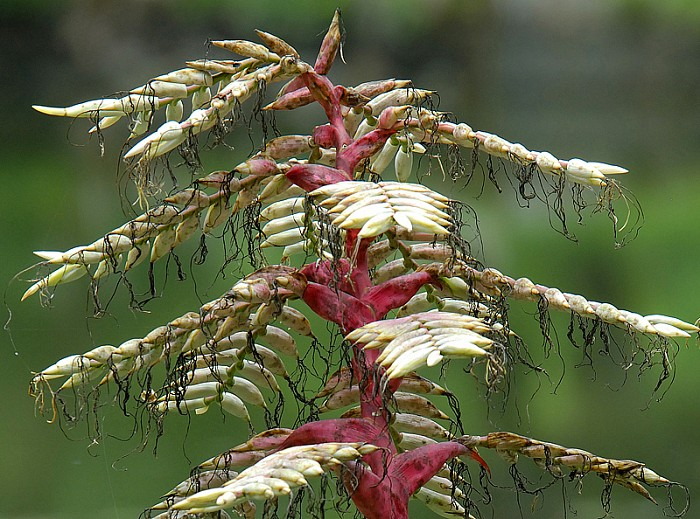 Plant -Brazil